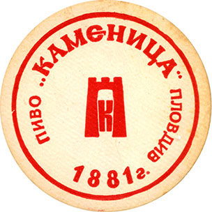 Kamenitza beermat